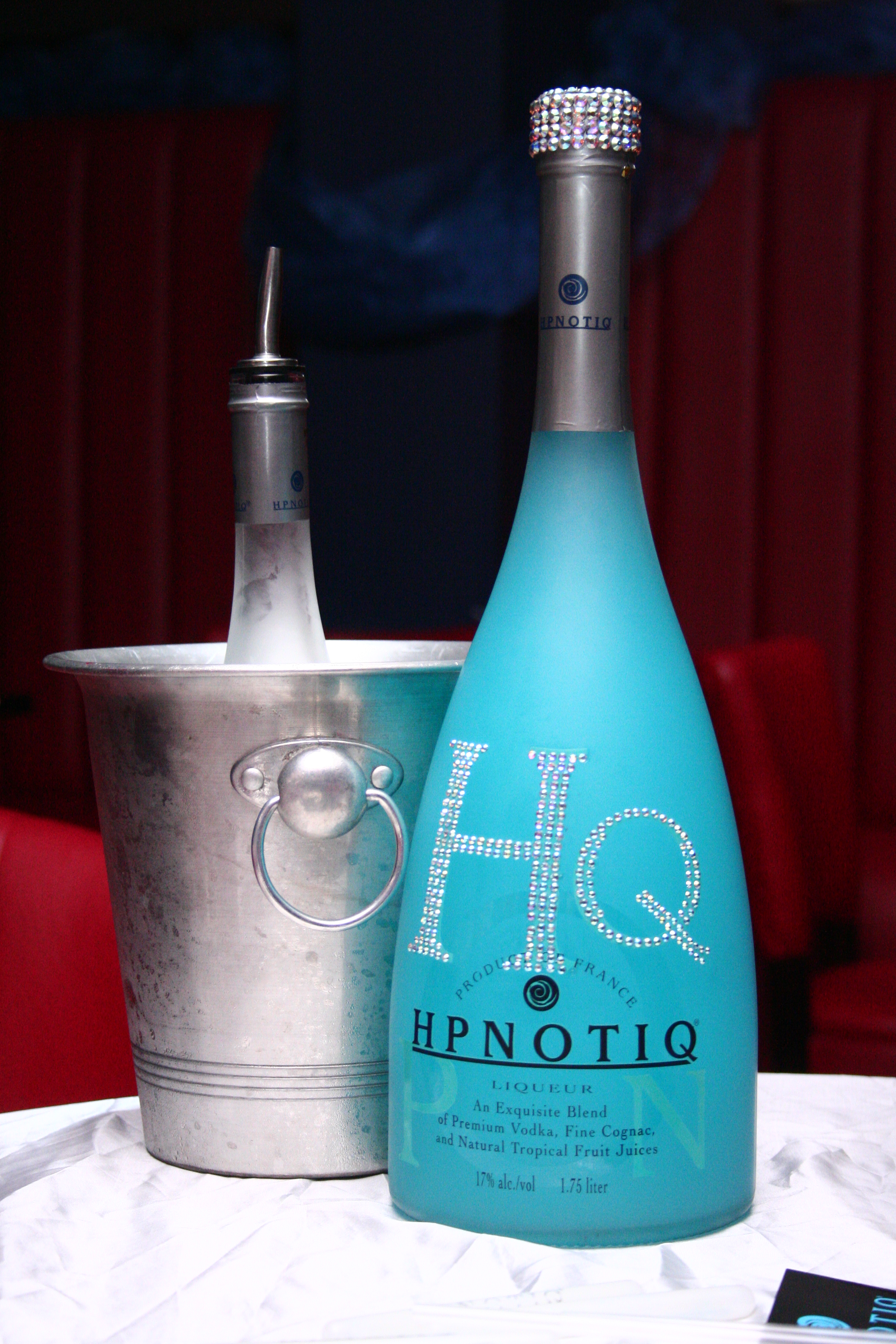 Hpnotiq drink